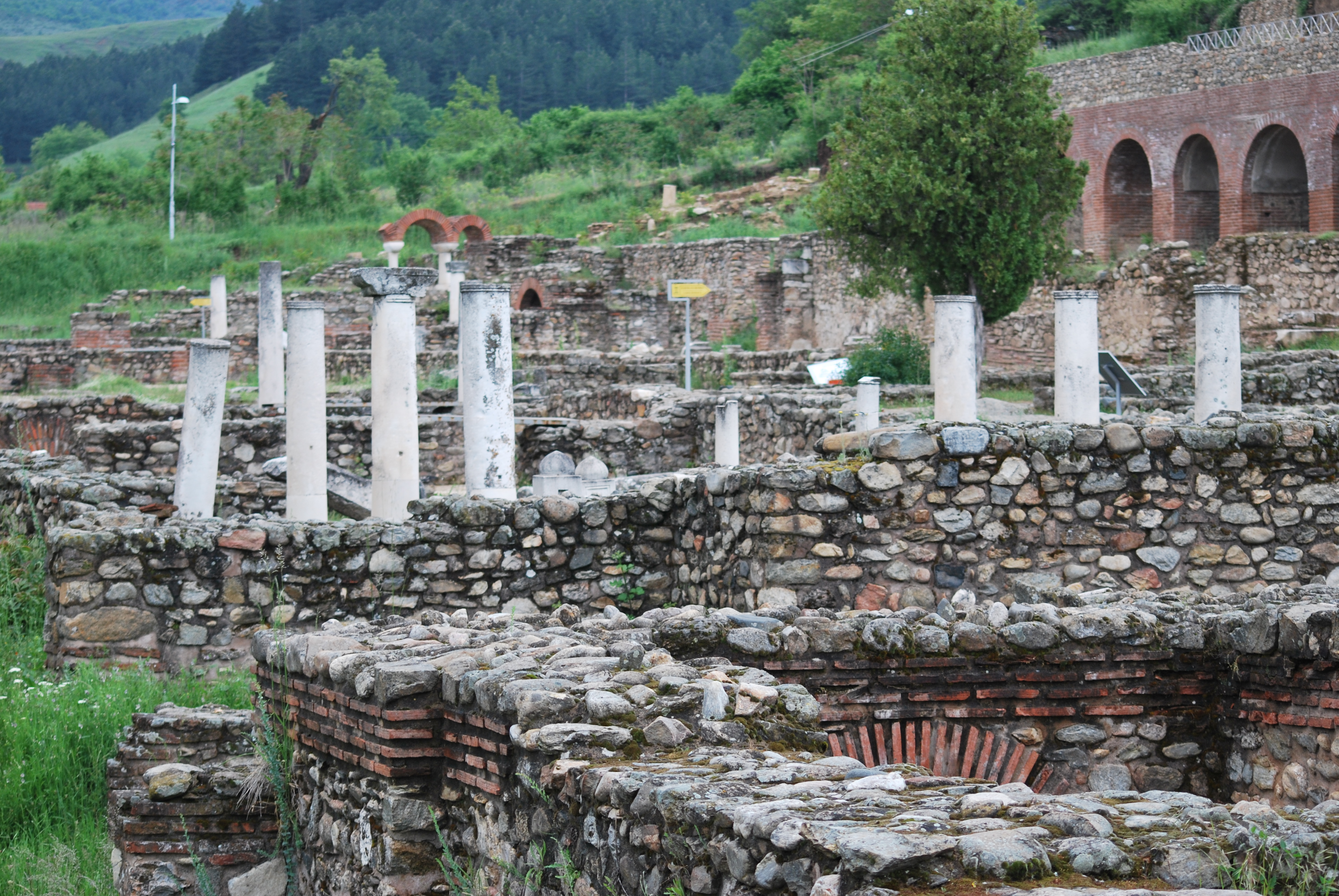 Heraclea Lyncestis, Macedonia